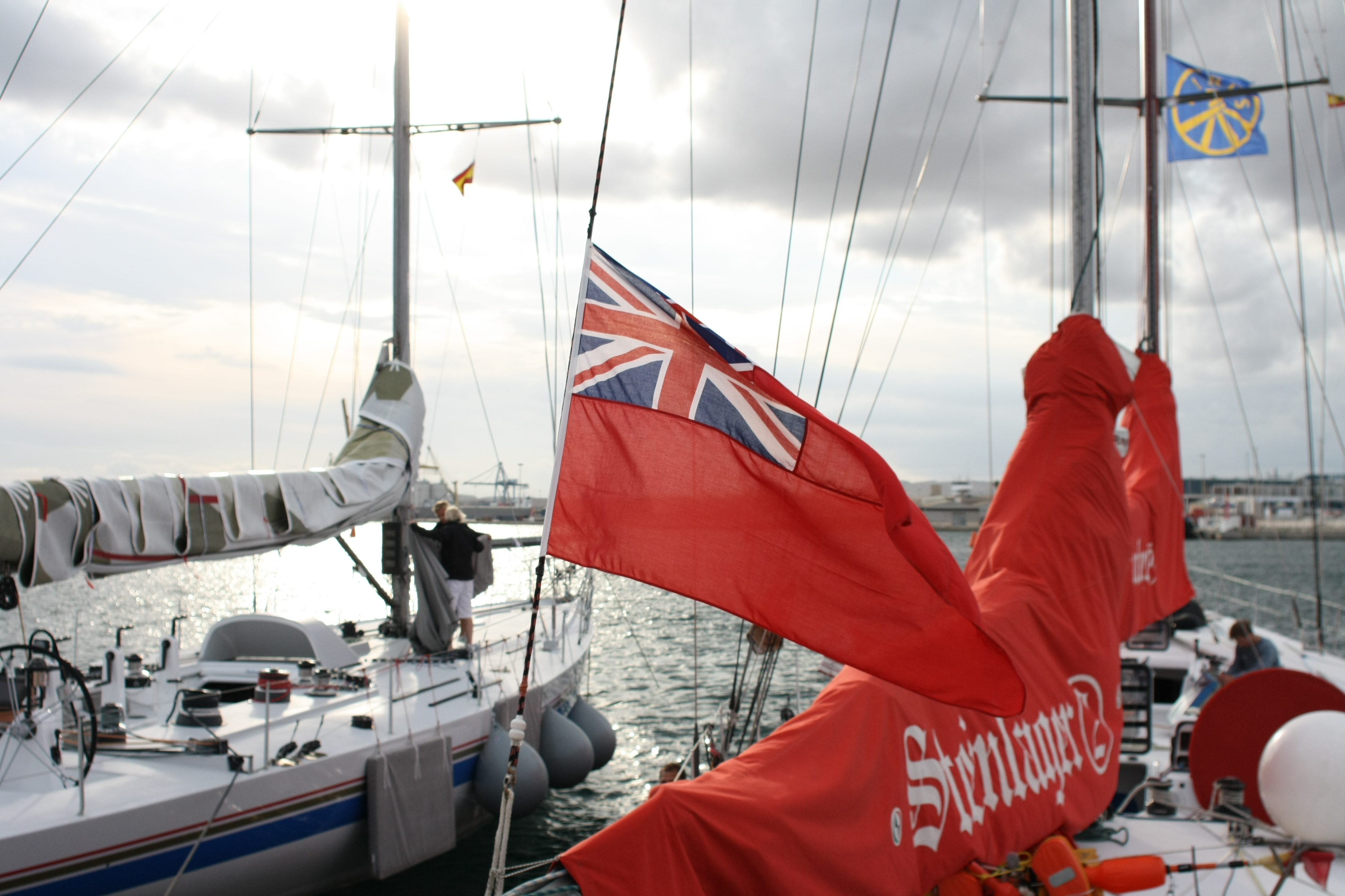 New zealand boat flag